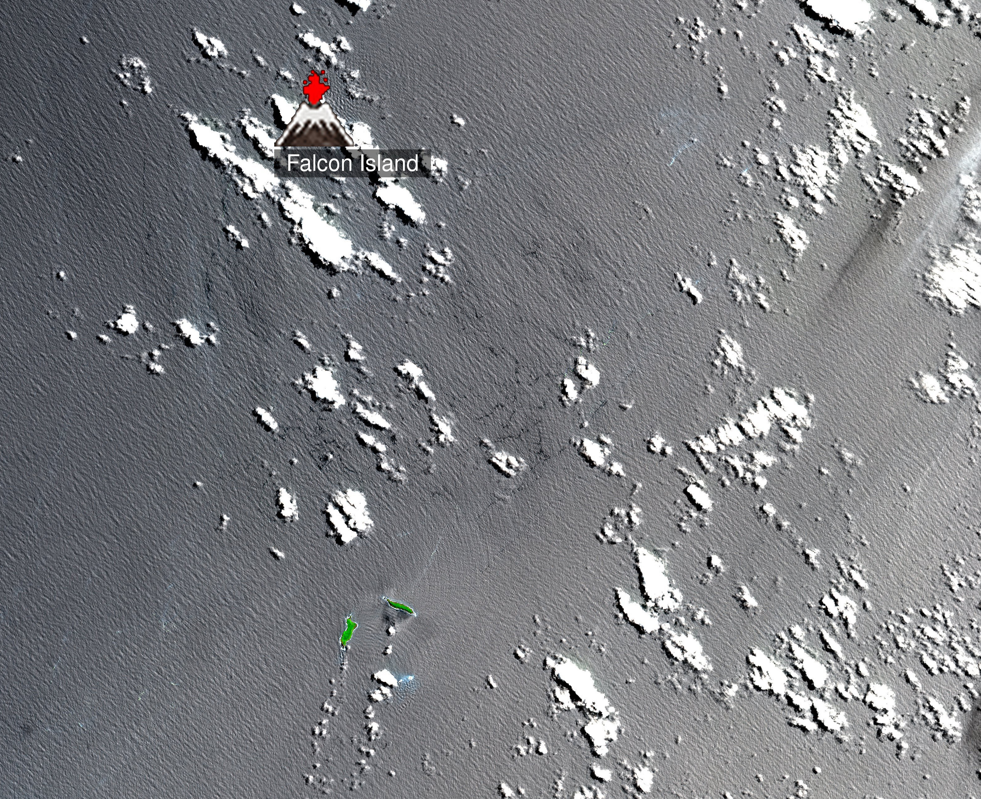 ASTER Very Near Infrared (VNIR) satellite image of Falcon Island (in red) and nearby Hunga Tonga-Hunga Haʻapai volcano caldera (in green) near Tonga in the South Pacific, taken on October 19, 2000. Image has been cropped to focus on Falcon Island and Hunga Tonga-Hunga Haʻapai.